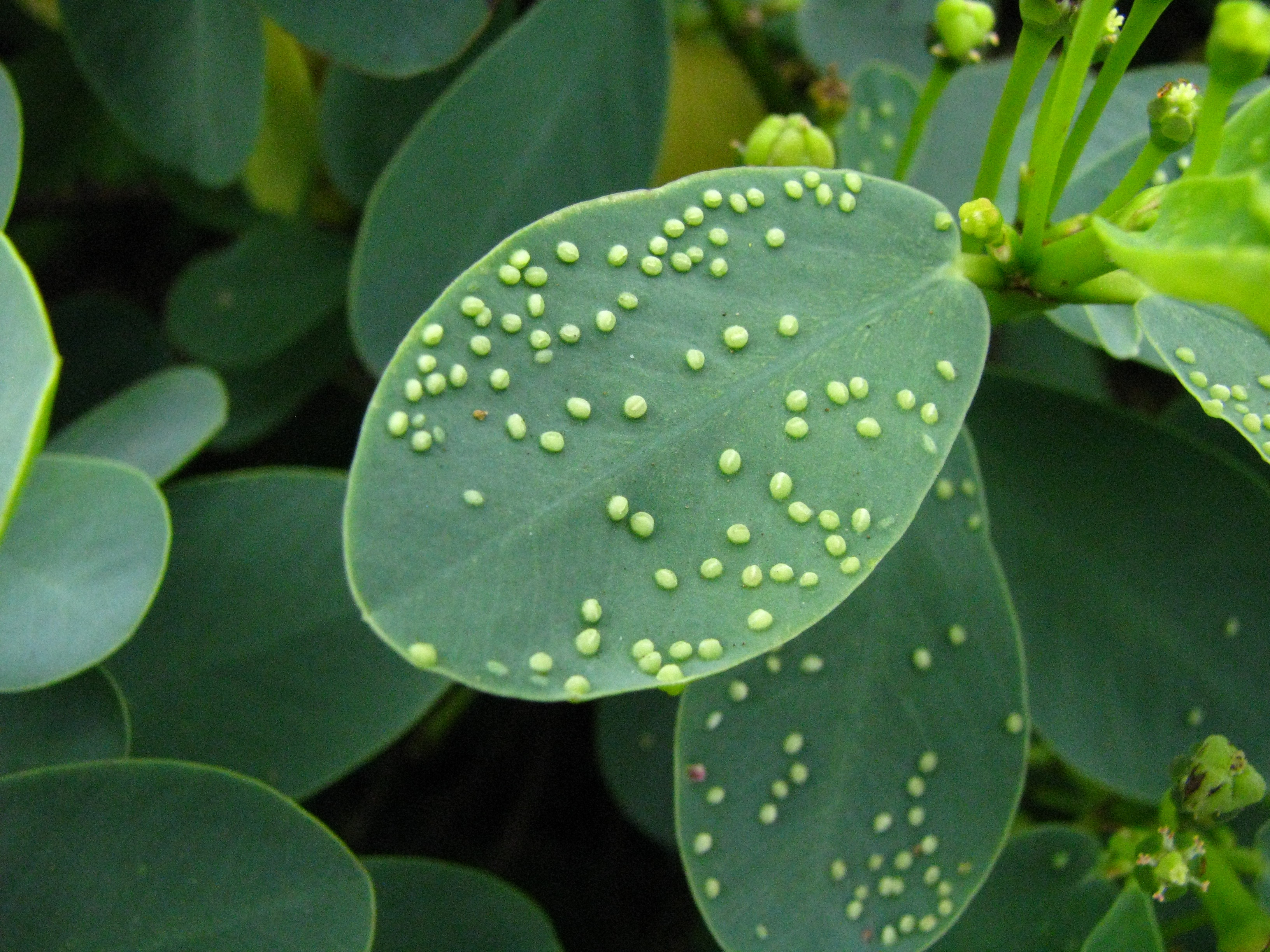 Galling on native ʻakoko. Deforms new (terminal) growth and causes these "galls." Euphorbiaceae Kīlauea Lighthouse, Kīlauea Point National Wildlife Refuge, Kauaʻi Thanks to Scot Nelson for his tentative identification as "probably psyllid* injury." Psyllids or 'jumping plant lice' are small phytophagous, phloem feeding insects that are typically monophagous (feed on a single plant) or oligophagous (feed on a few related plants). Together with aphids, coccids and whiteflies they form the monophyletic group, Sternorrhyncha (Homoptera), which is considered basal within the true bugs (Hemiptera).